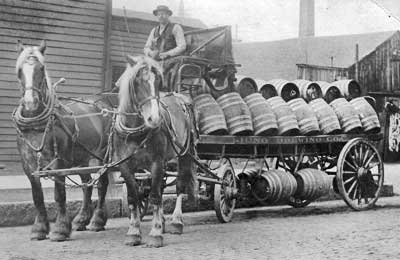 1888 Abresch brewery wagon